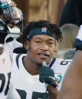 Akeem Spence 2019. Image from video Titans Mic'd Up vs. Jaguars (Week 12) | Sounds of the Game, ~ 00:26